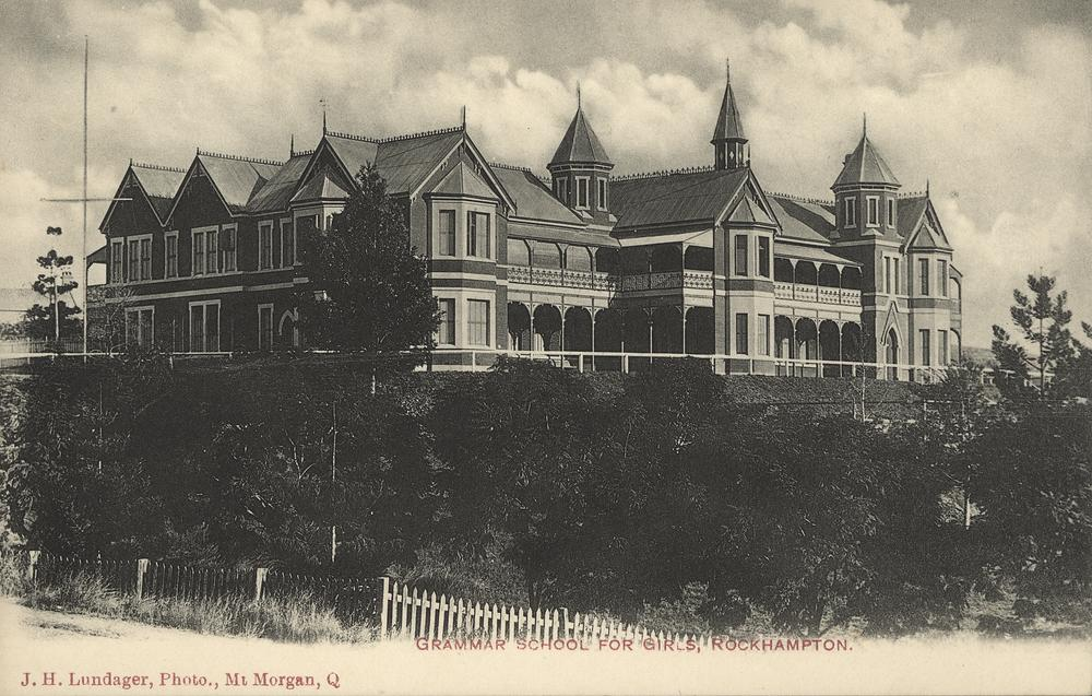 Rockhampton Girls' Grammar School. The Girls' Grammar Shool is situated on top of the Athelstane Range outside Rockhampton. It was started in 1892 and designed by E. Hockings.